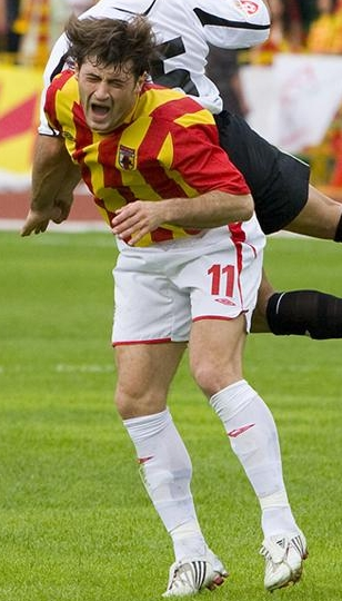 Serghei Dadu in action for FC Alania